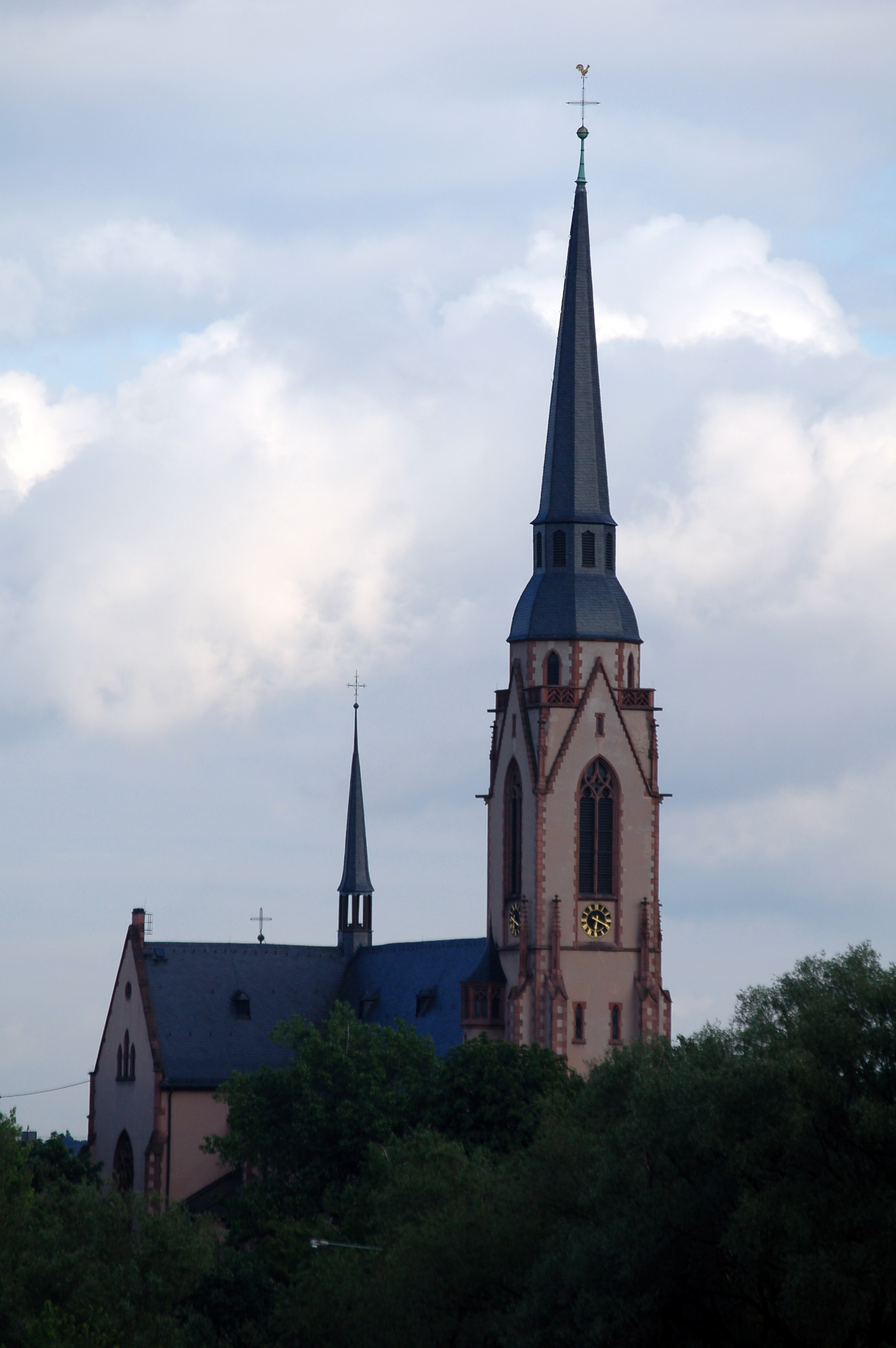 Katholische Kirche St. Mauritius in Frankfurt Schwanheim